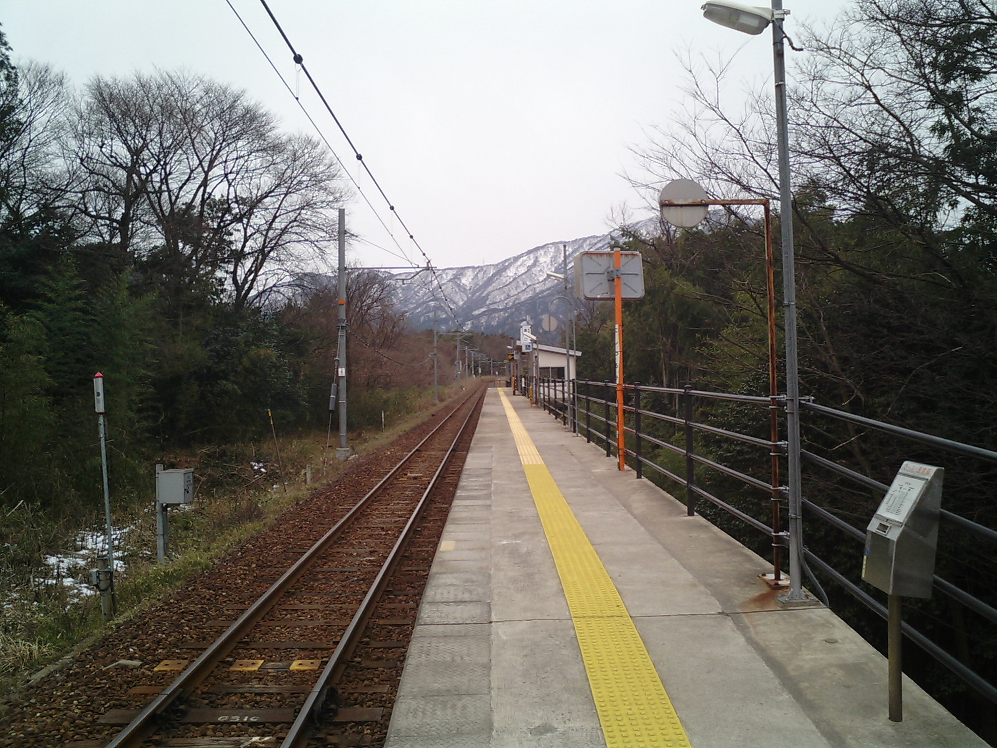 View of Nishi-Tsuruga Station